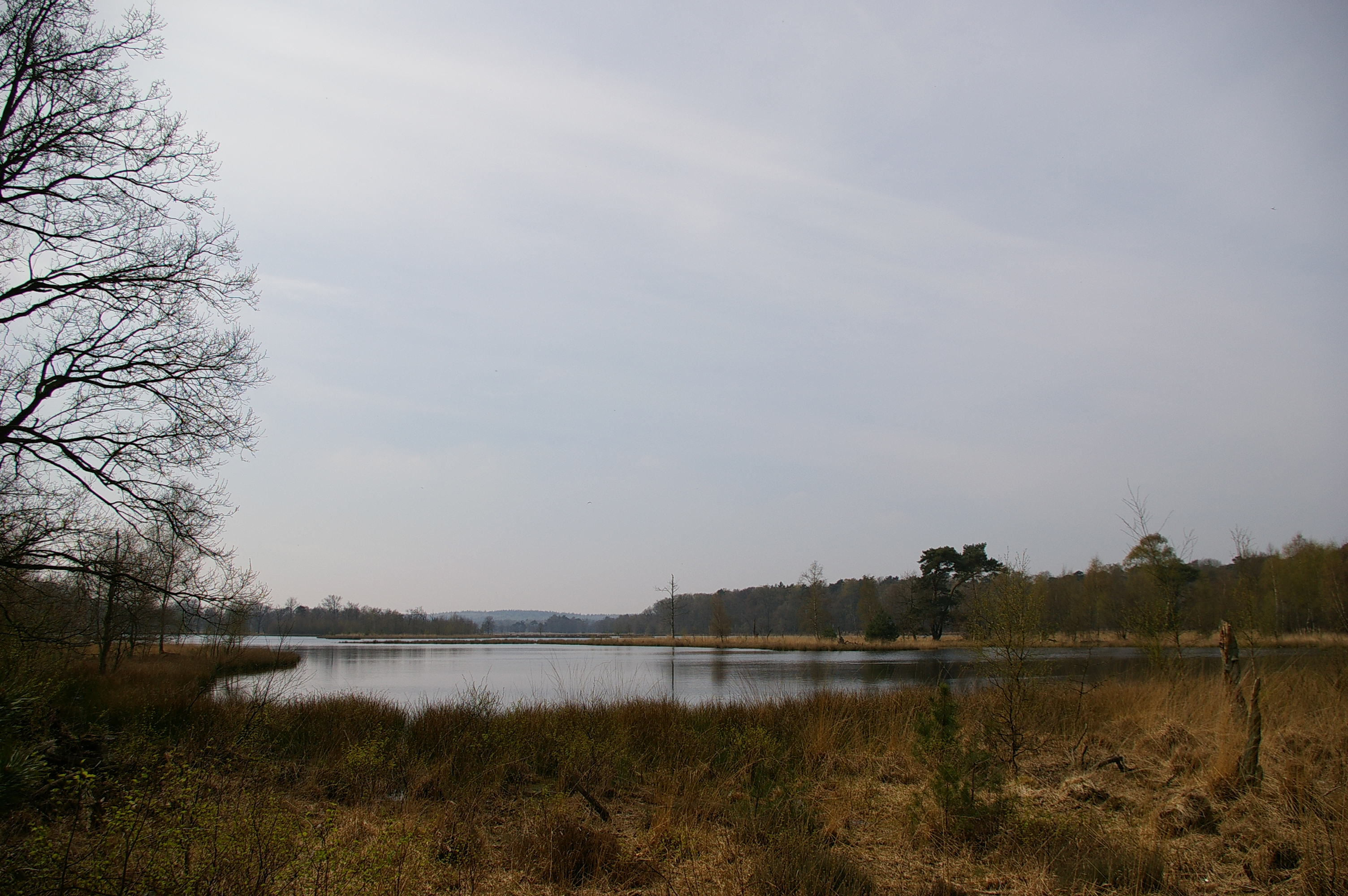 Lake in Leersumse veld, part of National park Utrechtse Heuvelrug, the Netherlands.